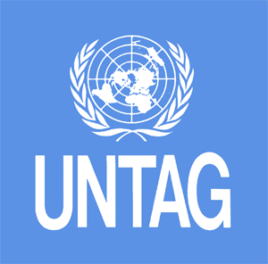 Low resolution copy of the UNTAG Namibia Logo 1989-90 Licensing information by the UN: Although the UN flag may be freely displayed to demonstrate support for the UN and its work, use of the UN emblem, name or initials for commercial purposes is restricted by General Assembly resolution 92(I), adopted in 1946. In this resolution, the Assembly decided that, to prevent the misuse of the UN seal and emblem, it could not be used without the authorization of the Secretary-General. Anyone wishing to use the UN emblem should submit an official request in writing to the Executive Secretary, United Nations Publications Board, Department of Public Information, United Nations, New York, NY 10017, USA. [1]